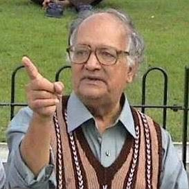 Professor Manzoor Hussain Mirza